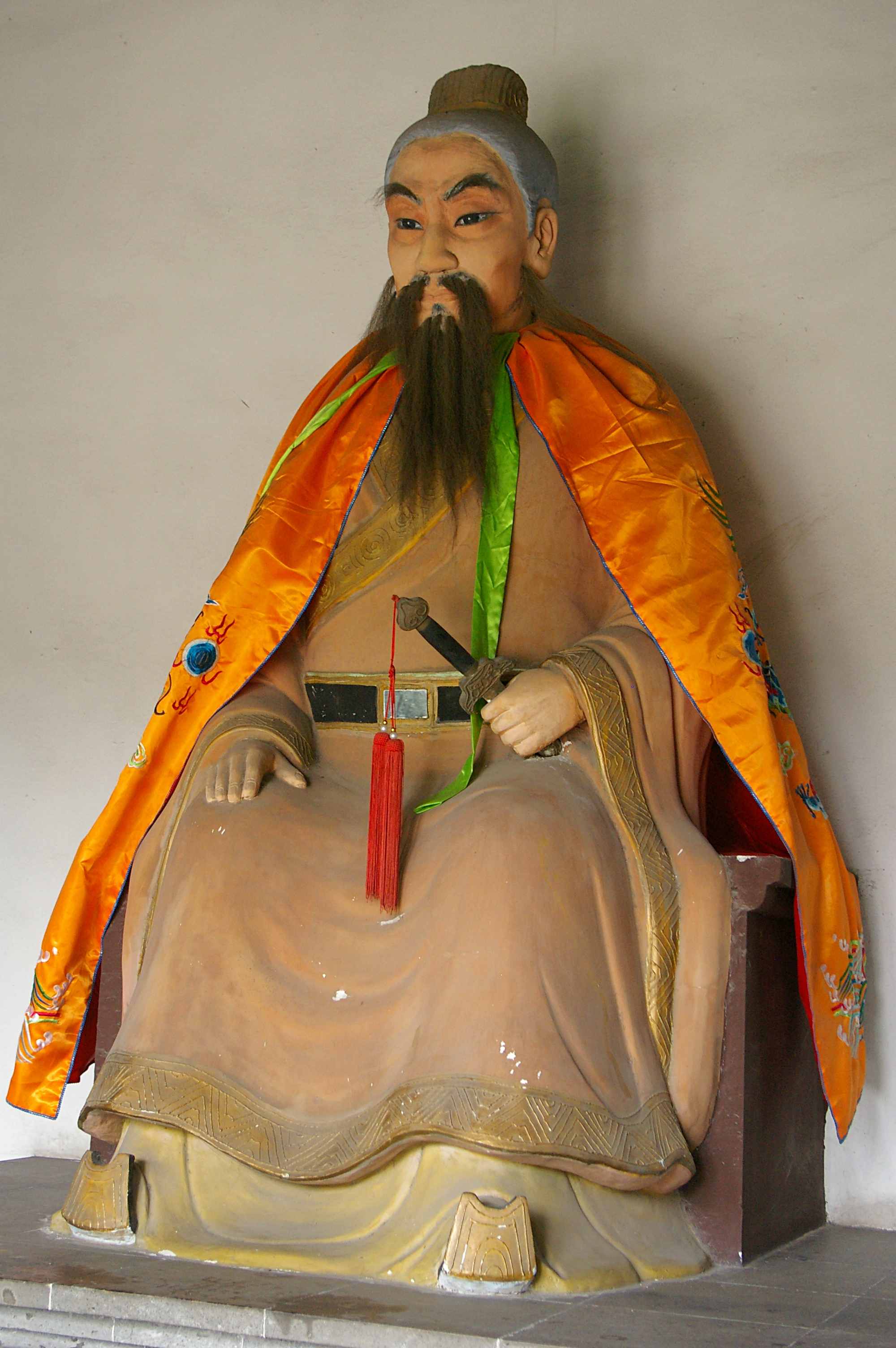 Statue of Wu Zixu in his memorial temple at Pan Men in Suzhou